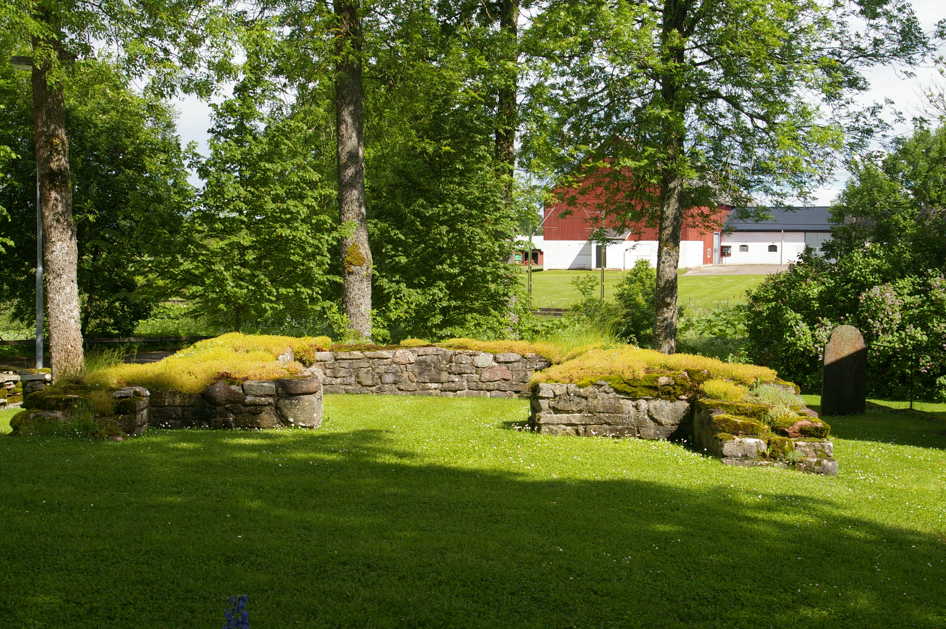 Friggeråkers kyrka (Church of Friggeråker) is a church from 1955 situated in the village of Friggeråker in Falköping Municipality in Sweden.